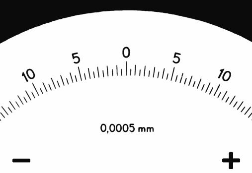 scale, example